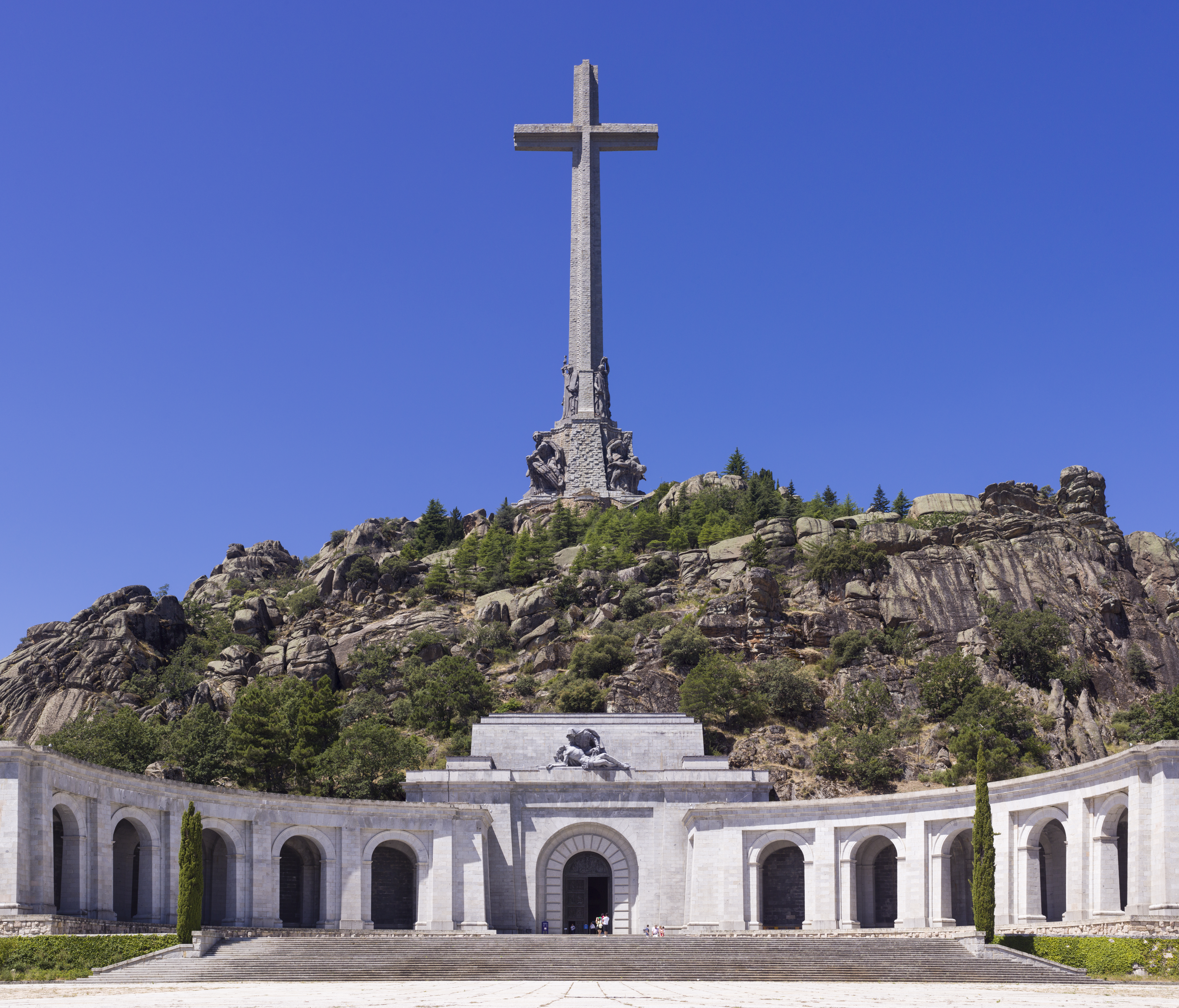 Valle de los Caídos (Valley of the Fallen), located in the municipality of San Lorenzo de El Escorial, Spain, is both a memorial and basilica conceived by Franco, who is buried within the mountain.